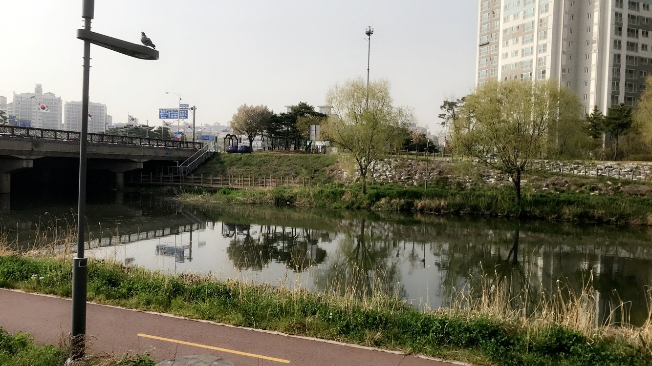 A five-mile High Line styled Park in Ansan (Gyeongi-do)